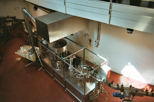 Château Pichon-Longueville-Baron in Pauillac